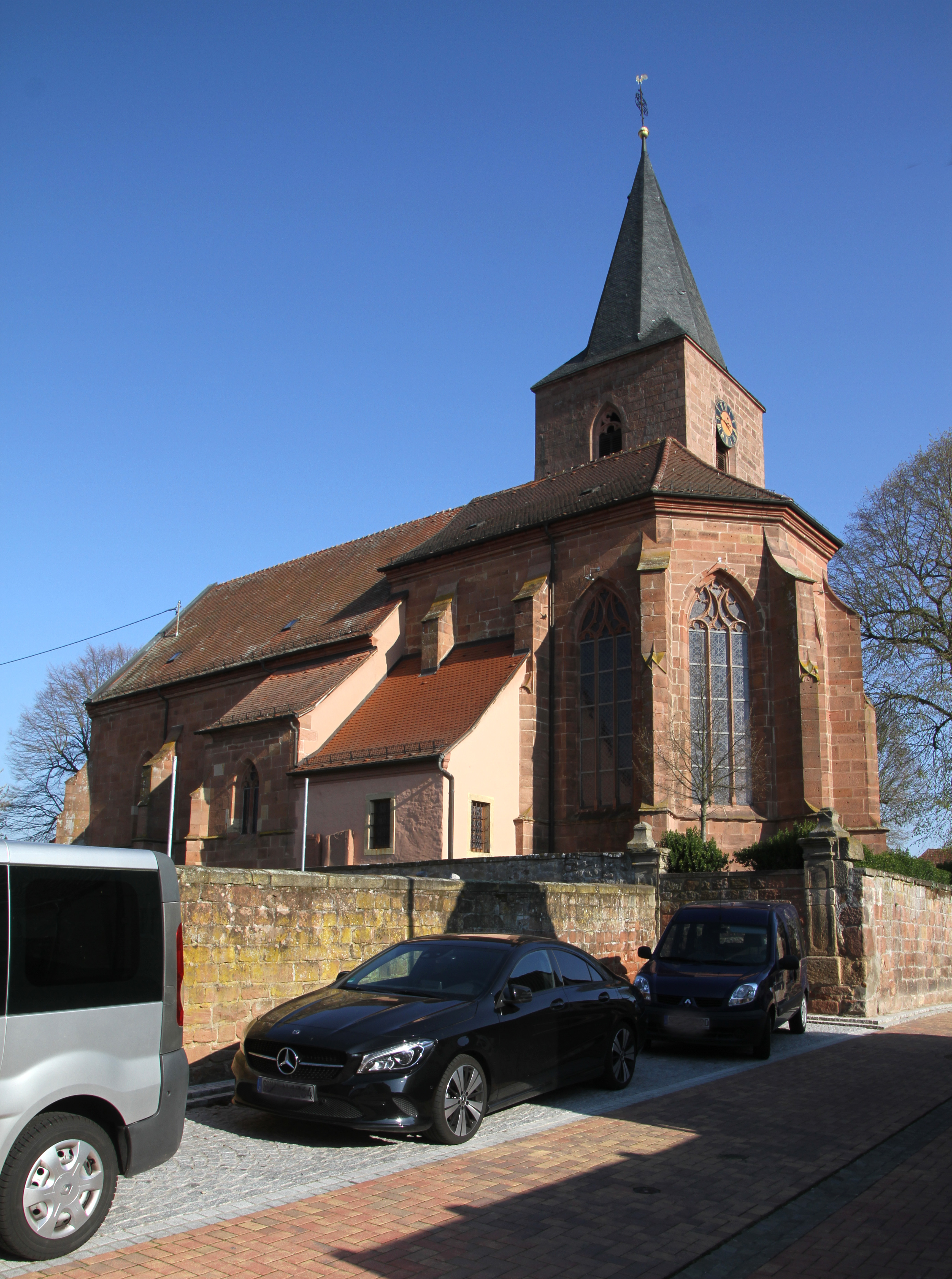 Church of Saint Michael in Rohrbach.